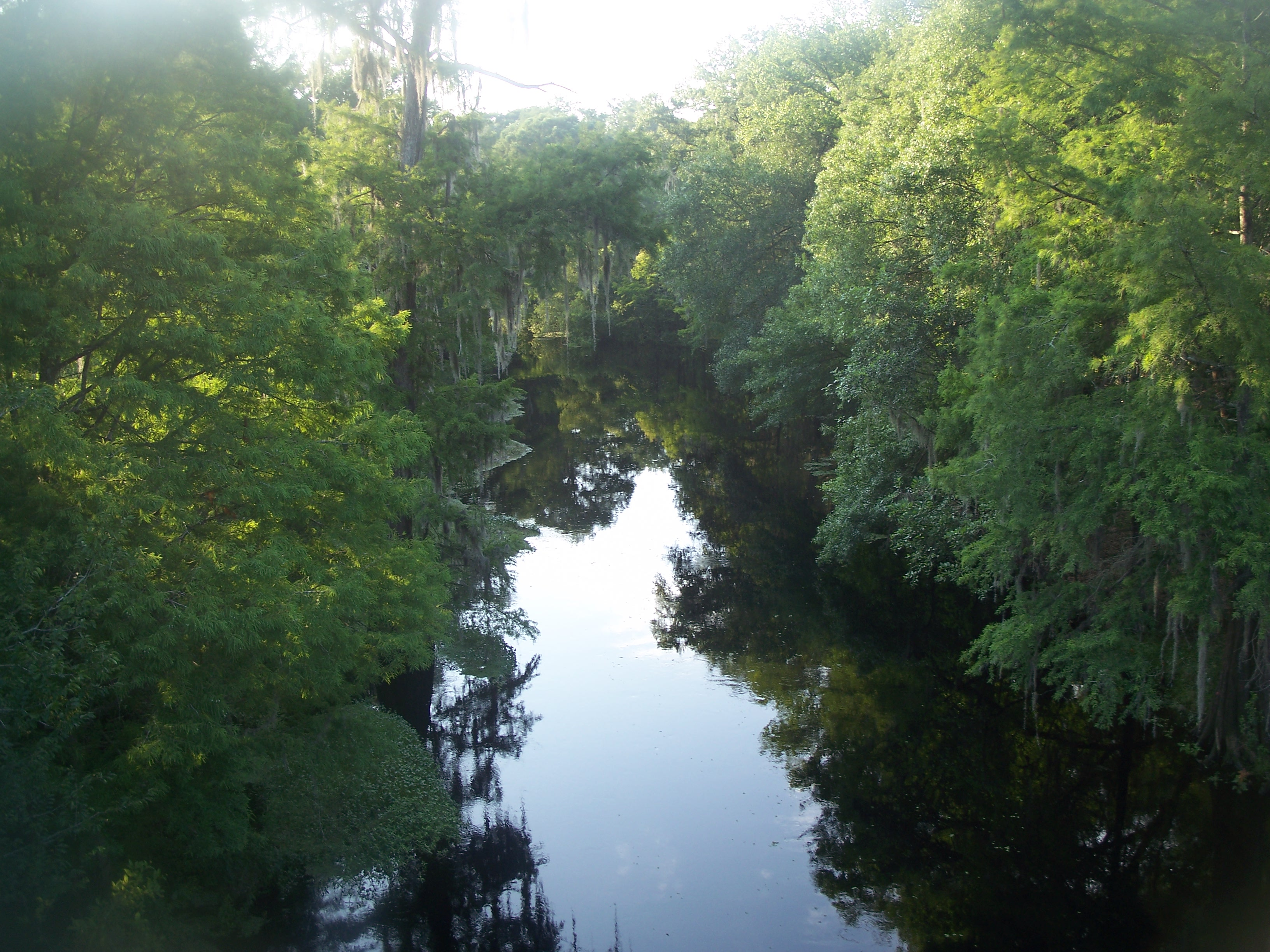 Withlacoochee River (Florida): Looking east from the US 301 bridge over the river, in Hernando County, just north of the Pasco County border